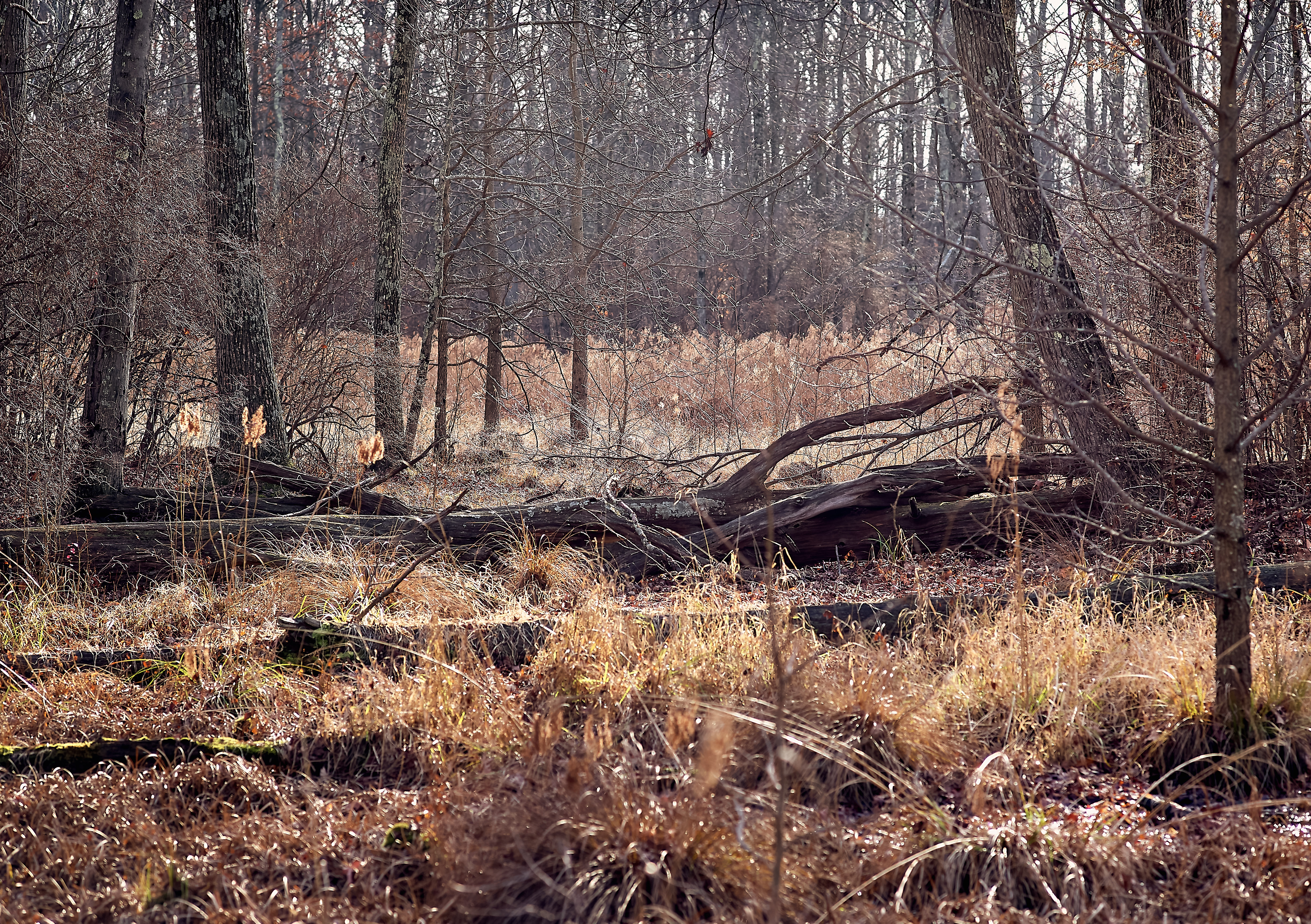 Captured December 4, 2016